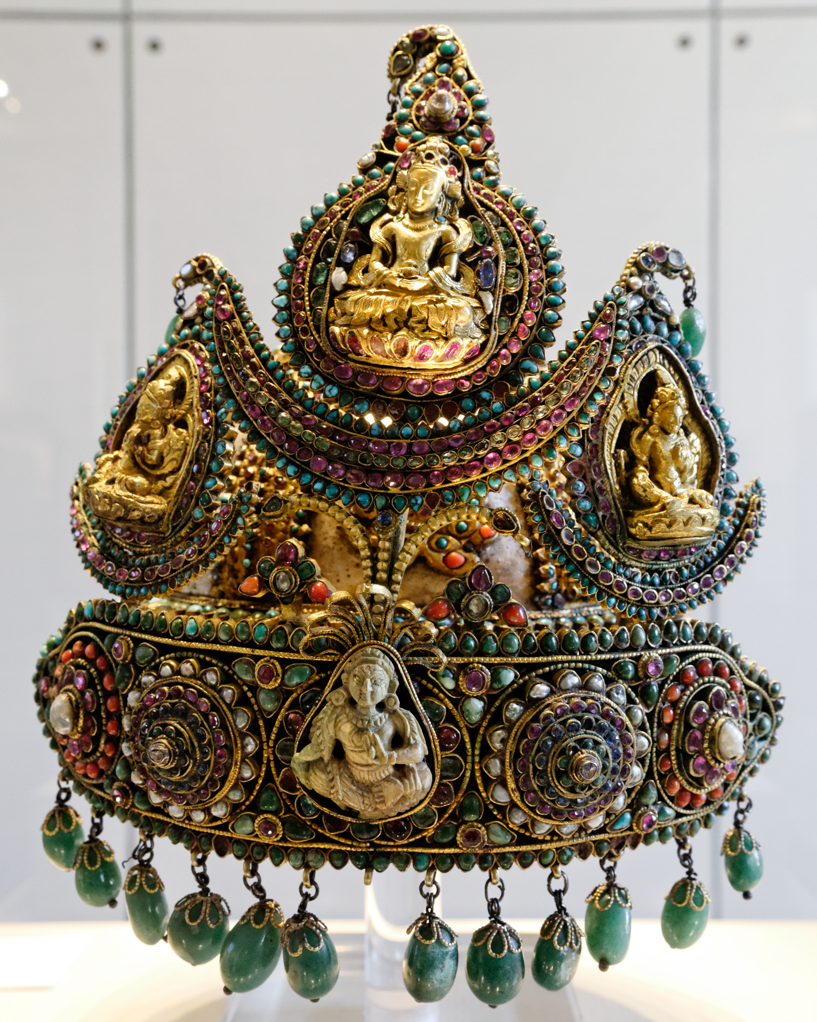 Ceremonial crown of the type worn by royal princes in Nepal.